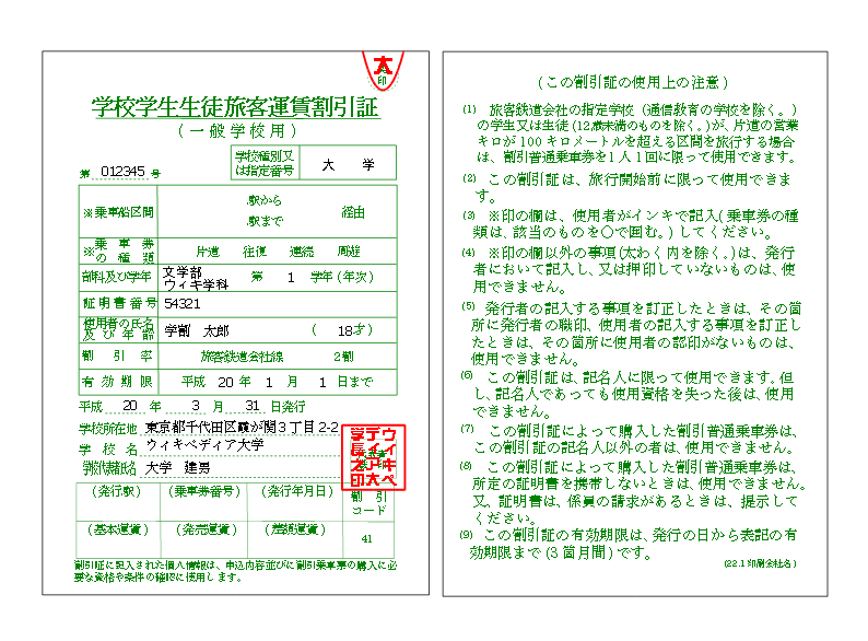 Student Discount Card at JR, Japan.